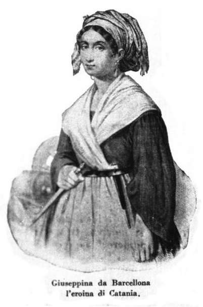 Portrait of the Risorgimento Sicilian patriot Giuseppa Bolognara Calcagno